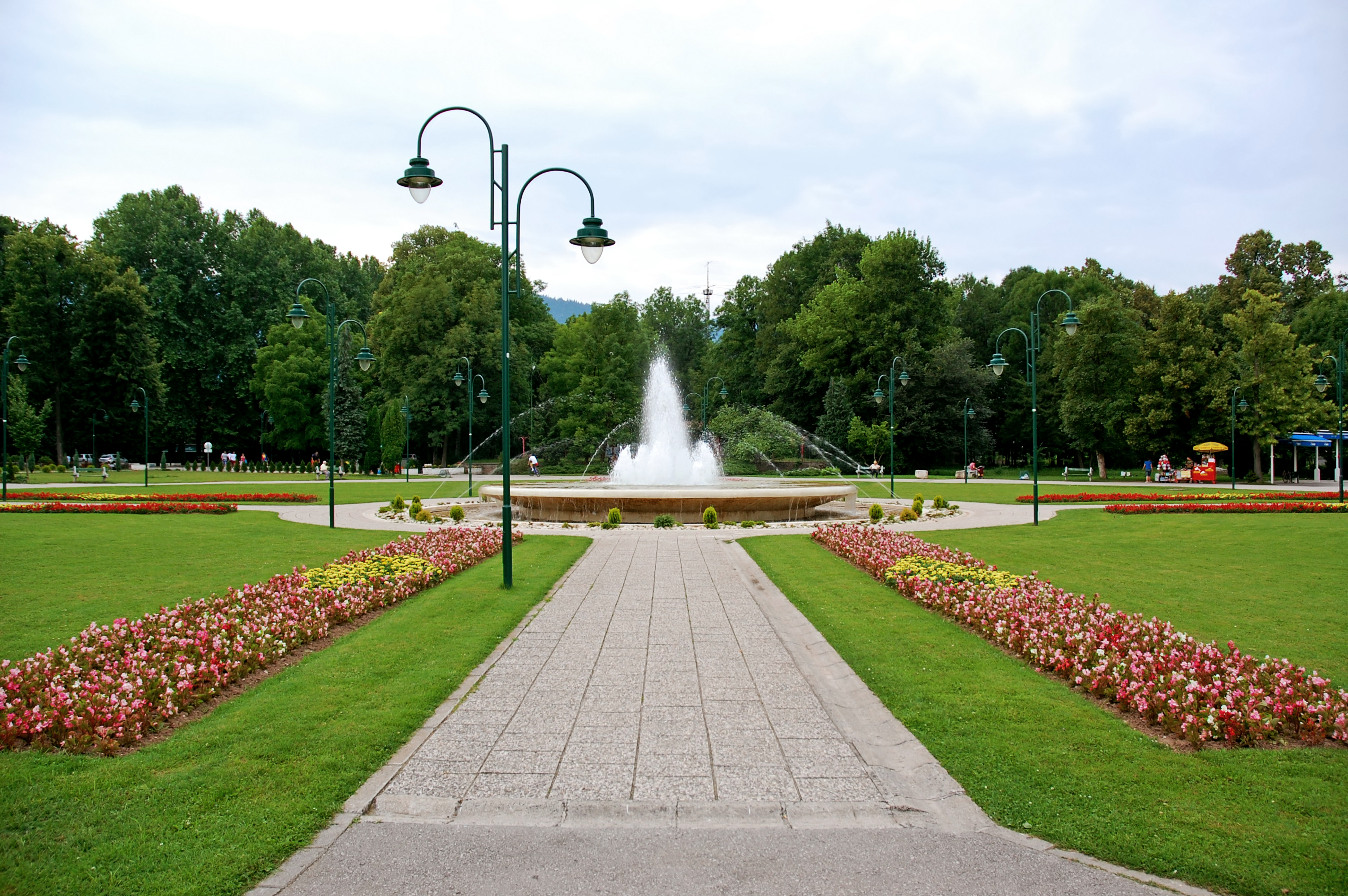 Banjska Park in 2010